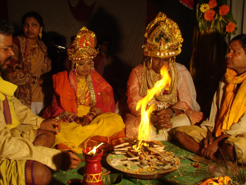 Hindu wedding rituals and details vary across India and Nepal. Above fire rituals are in progress during a Hindu wedding in Orissa, an eastern state of India.